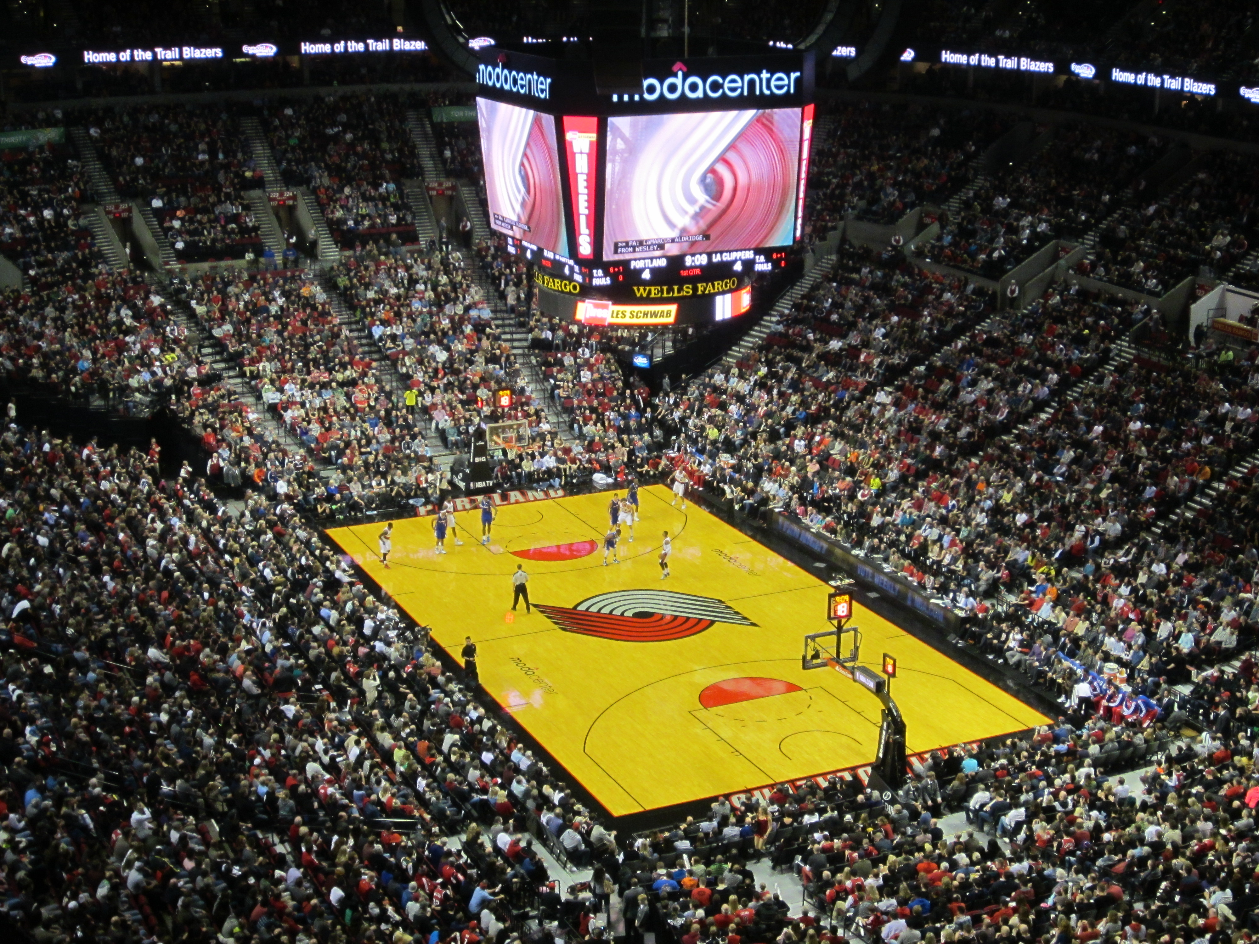 Portland Trail Blazers game at Moda Center, Portland, Oregon (2013)